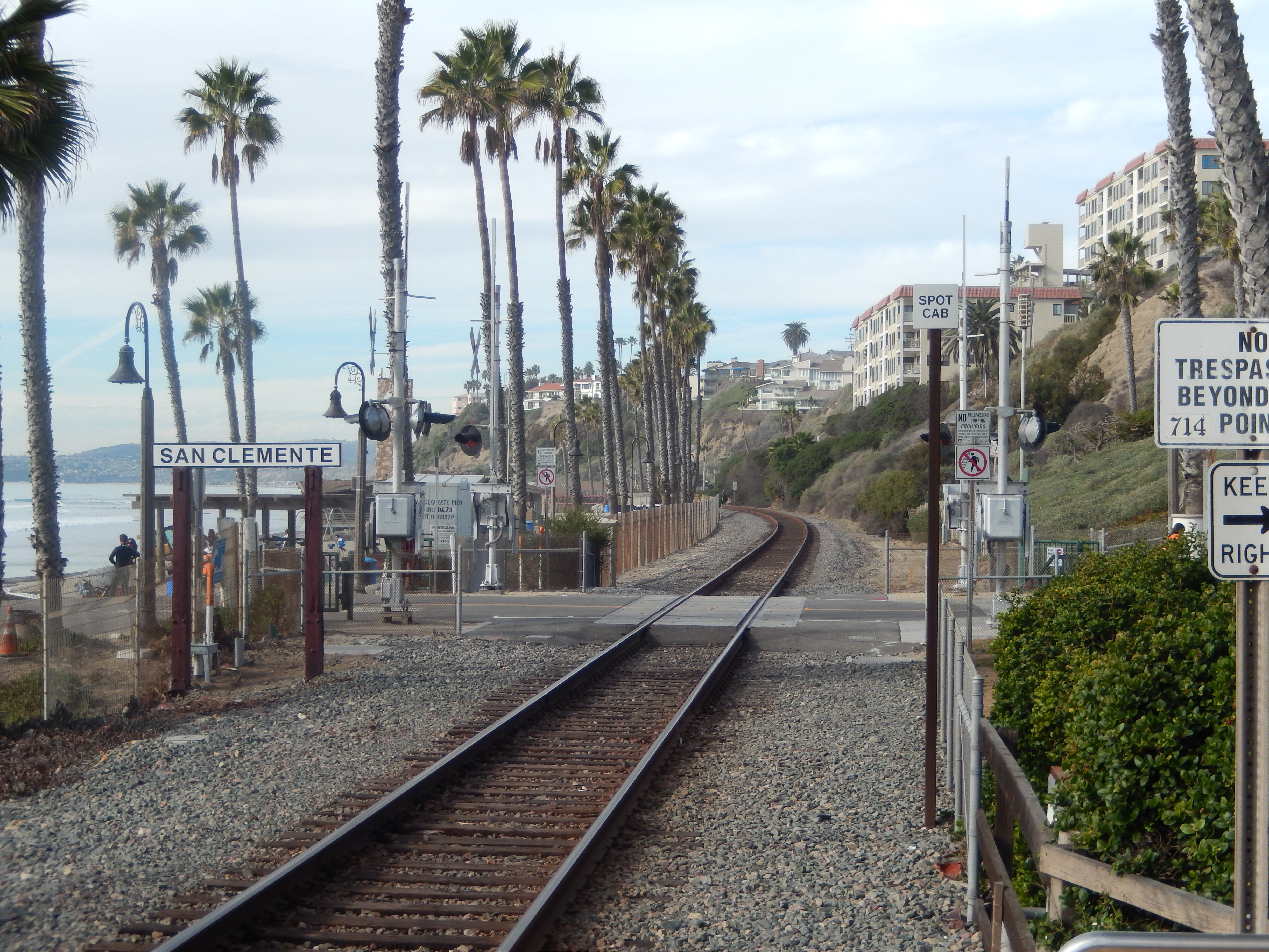 I took photo of Amtrak route along the beach at San Clemente, CA, with Nikon camera.